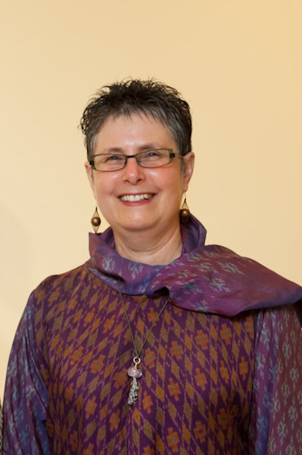 Photograph of Rebecca Kamen, artist, at the opening for the 2011 Elemental Matters exhibit at the Chemical Heritage Foundation, Philadelphia, PA, USA, 4 February 2011.